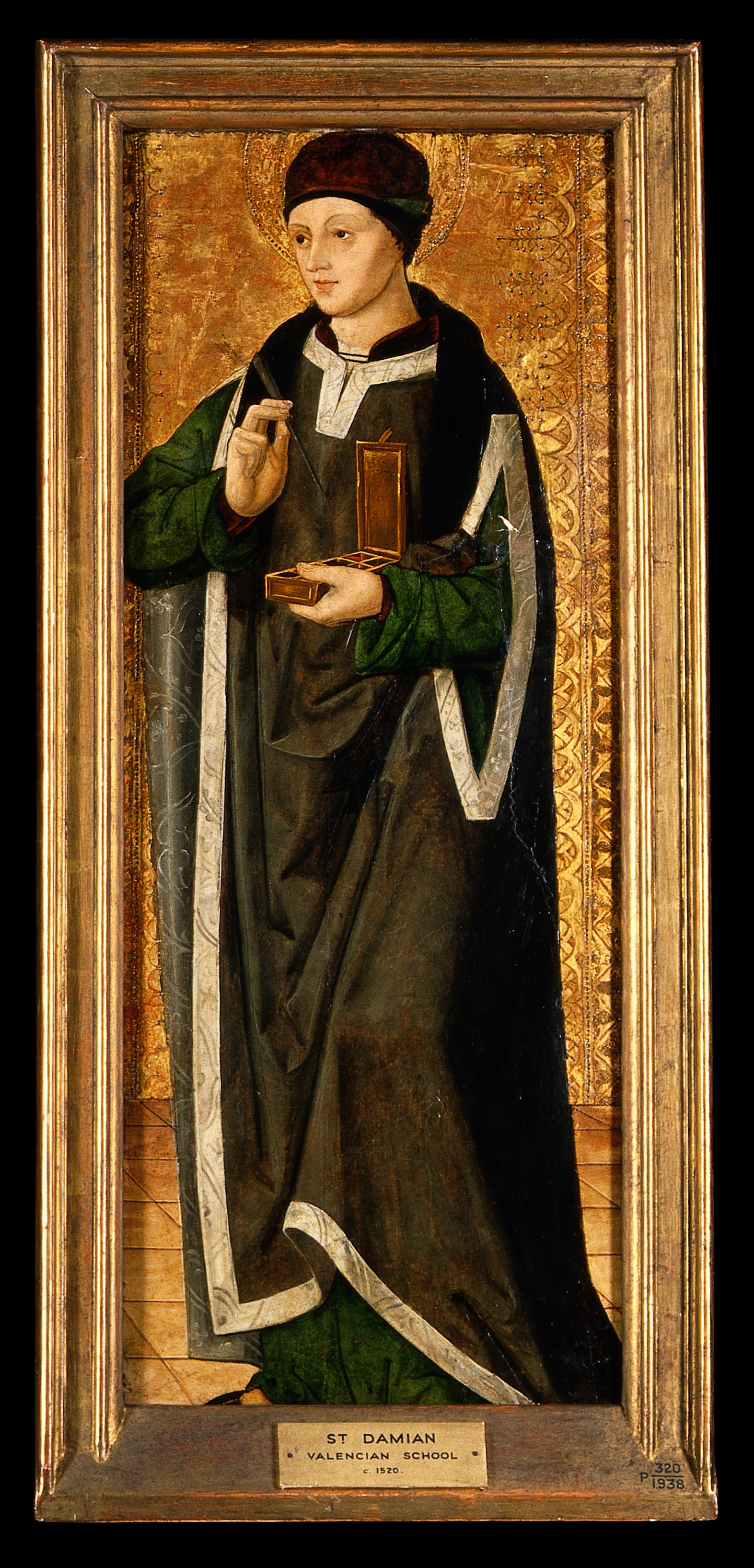 Saint Damian. Oil painting by the Artés Master, ca. 1500. Iconographic Collections Keywords: Artés Master